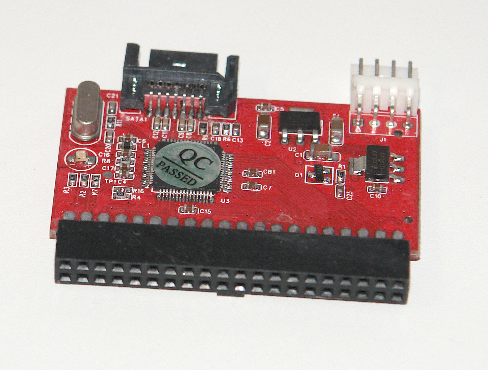 SATA to IDE converter